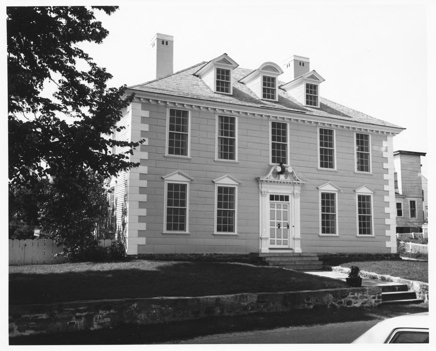 Wentworth-Gardner House, Partsmouth ( Rockingham County, New Hampshire) This image or media file contains material based on a work of a National Park Service employee, created as part of that person's official duties. As a work of the U.S. federal government, such work is in the public domain. See the NPS website and NPS copyright policy for more information.